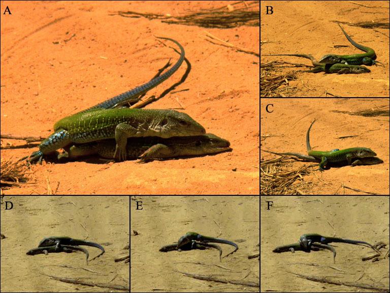 An adult male giant ameiva (Ameiva ameiva) mounts a dead female giant ameiva (A, B, C), and then attempts to pair his and the female's cloaca (D, E, F).